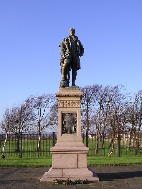 Burns Statue. A statue of Scotland's national poet, Robert Burns. Details of the donor (John Spiers), sculptor (James Pittendrigh Macgillivray, later Sculptor Royal for Scotland) and the unveiling ceremony in 1896, with illustrations, are at